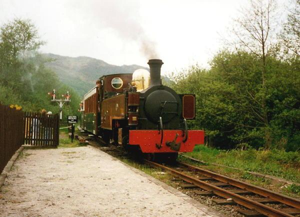 Welsh Highland Railway locomotive Russell approaching Gelerts Farm Author: Dan Crow